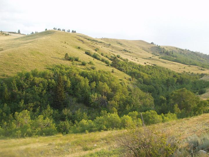 Bighorn Mountains in early August just west of Buffalo, Wyoming.